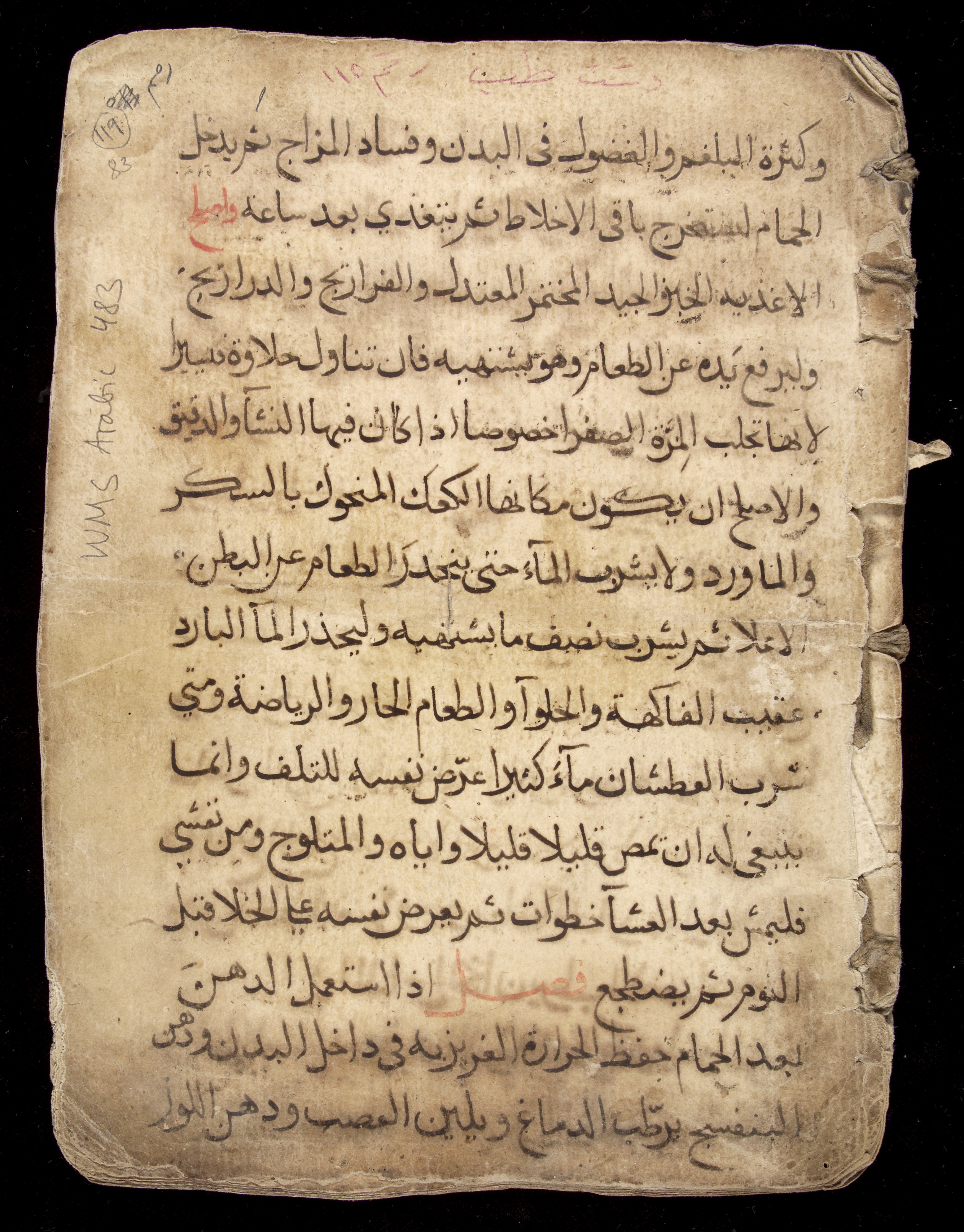 Page from an Arabic Text Asian Collection Keywords: Arabic